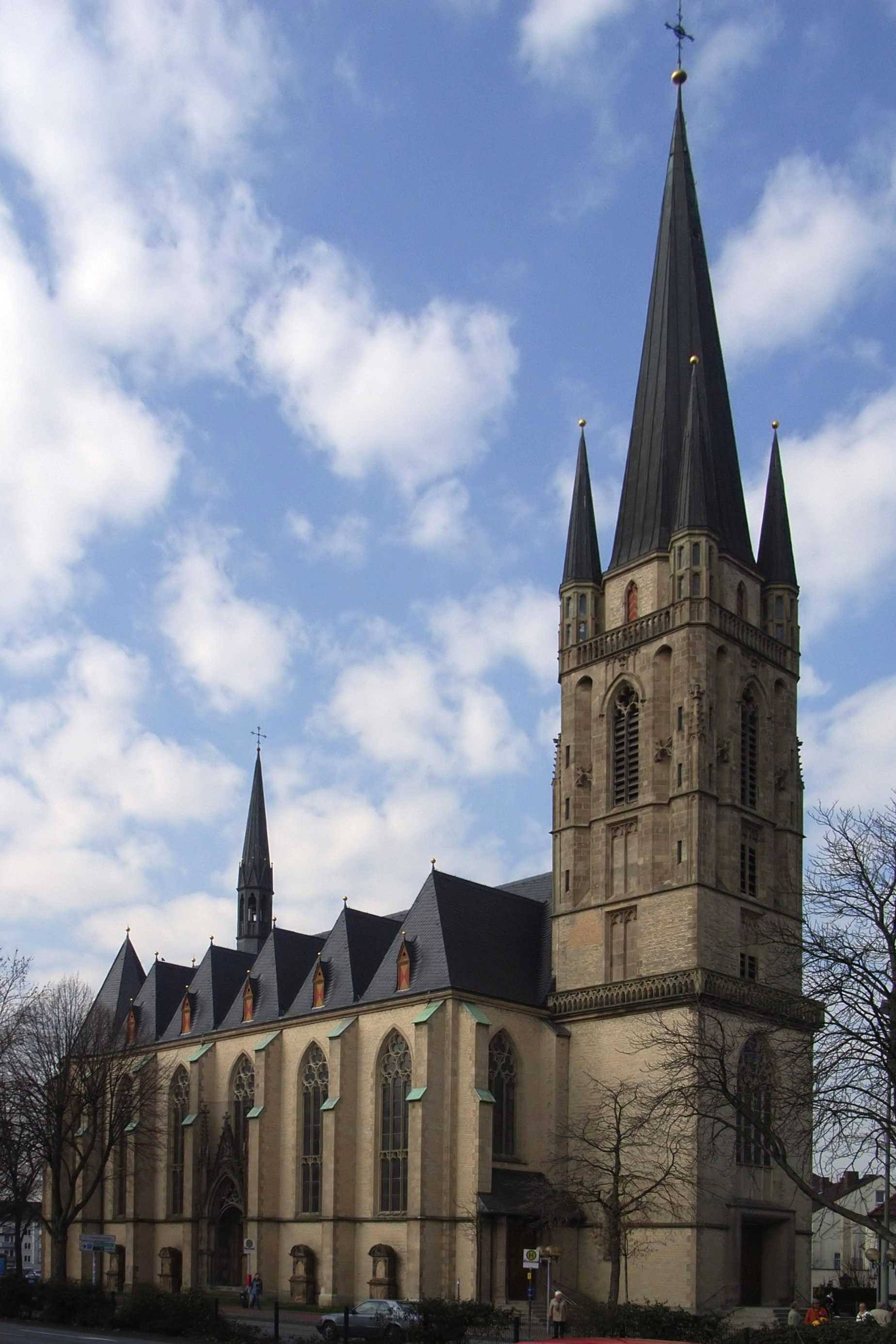 Paderborn, Germany: Sacred Heart church